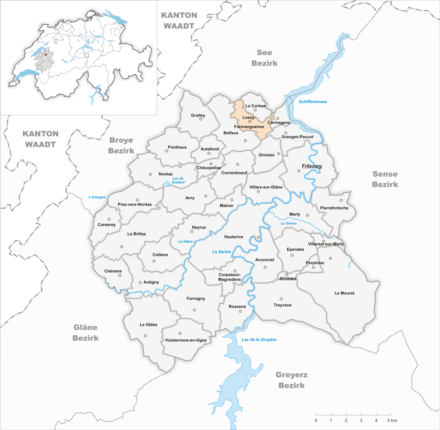 Municipality Lossy-Formangueires Artist: Tschubby